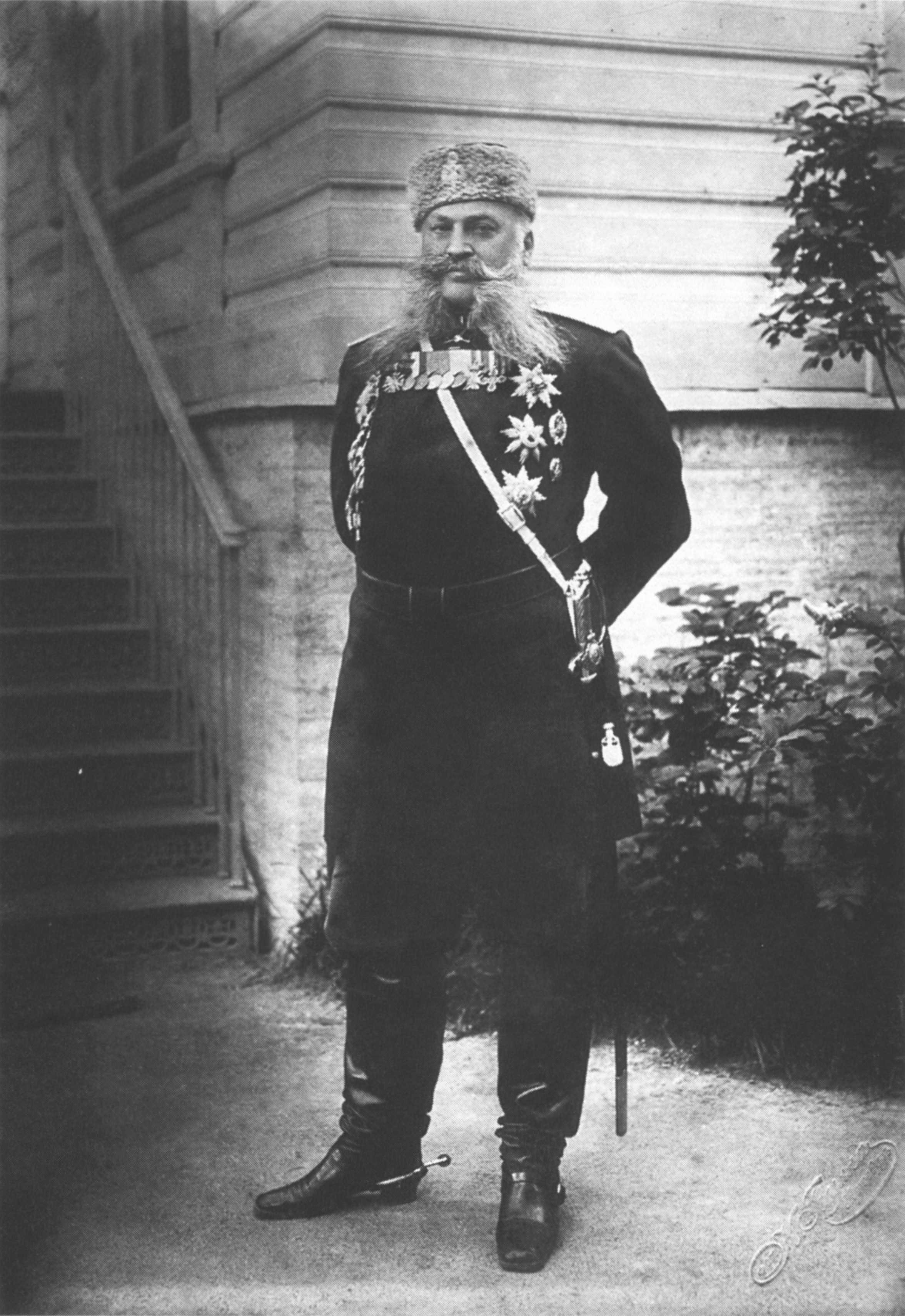 Nikolai Vasilyevich Kleighels (1850-1916), was a Governor of St Petersburg (1895-1904). 1902.